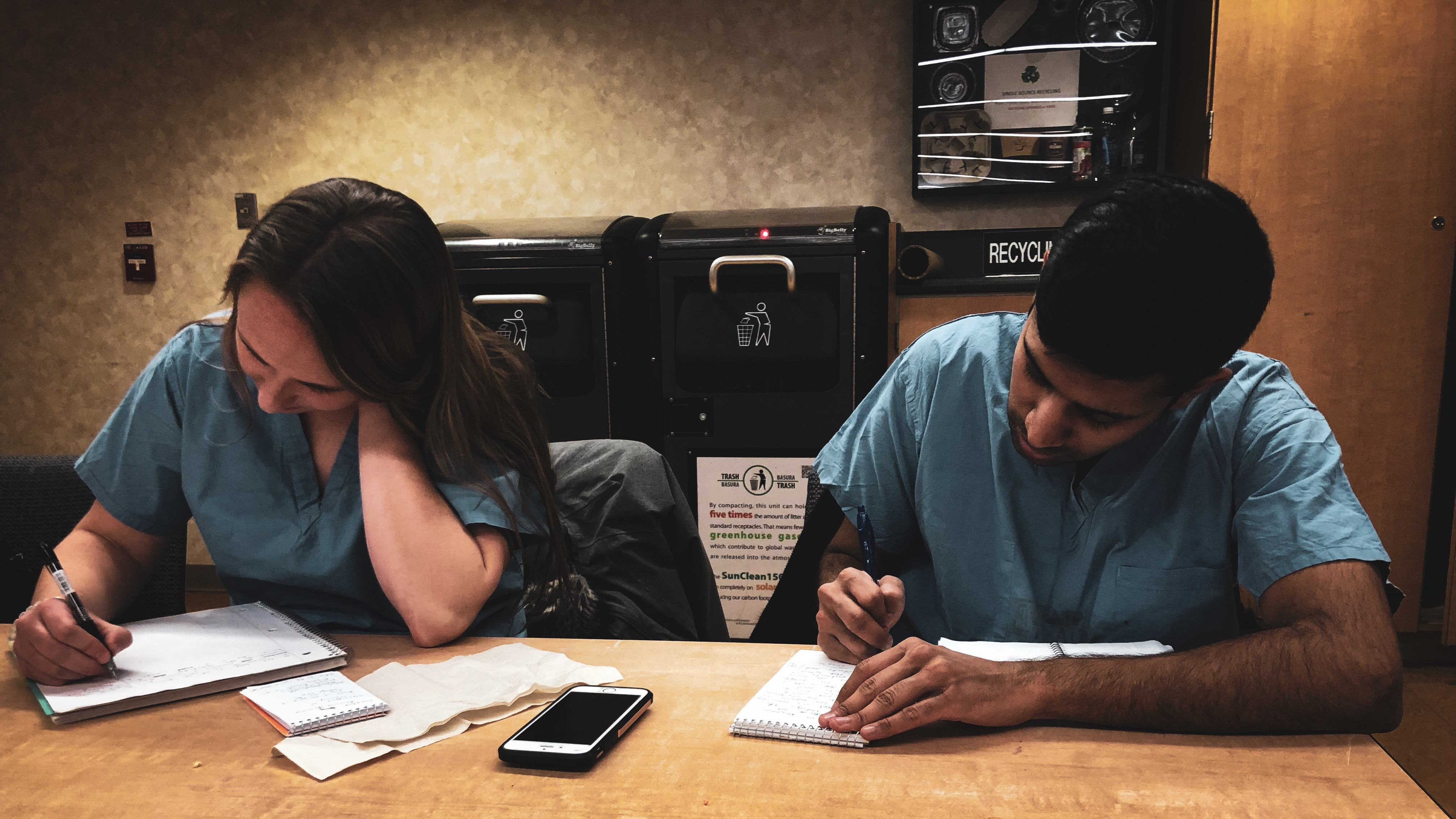 Two first year medical students at Lewis Katz School of Medicine writing/journaling about their experiences in the hospital. Photo taken by: Phil Delrosario. Featuring Ambuj Suri and Kelsey Muir